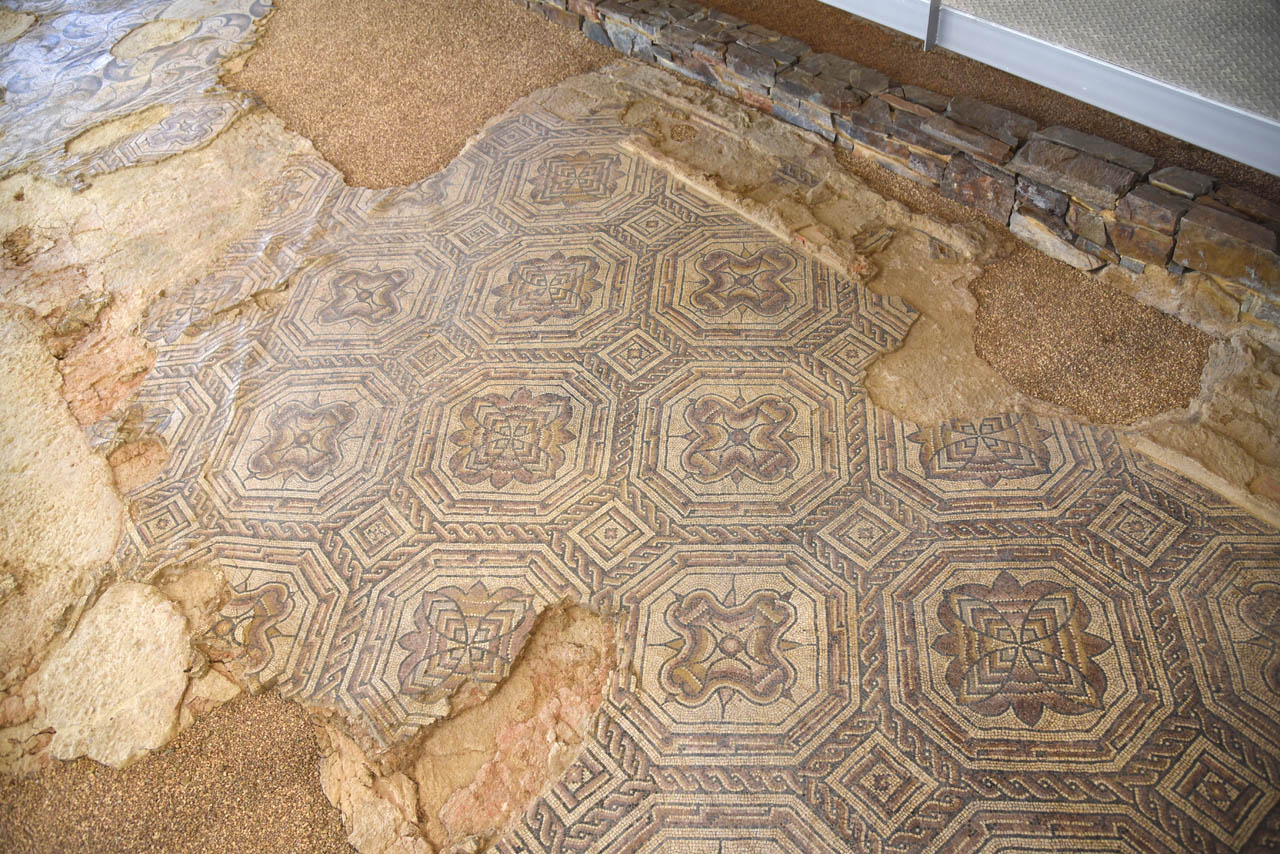 Villa Romana Orpheus de Camarzana de Tera